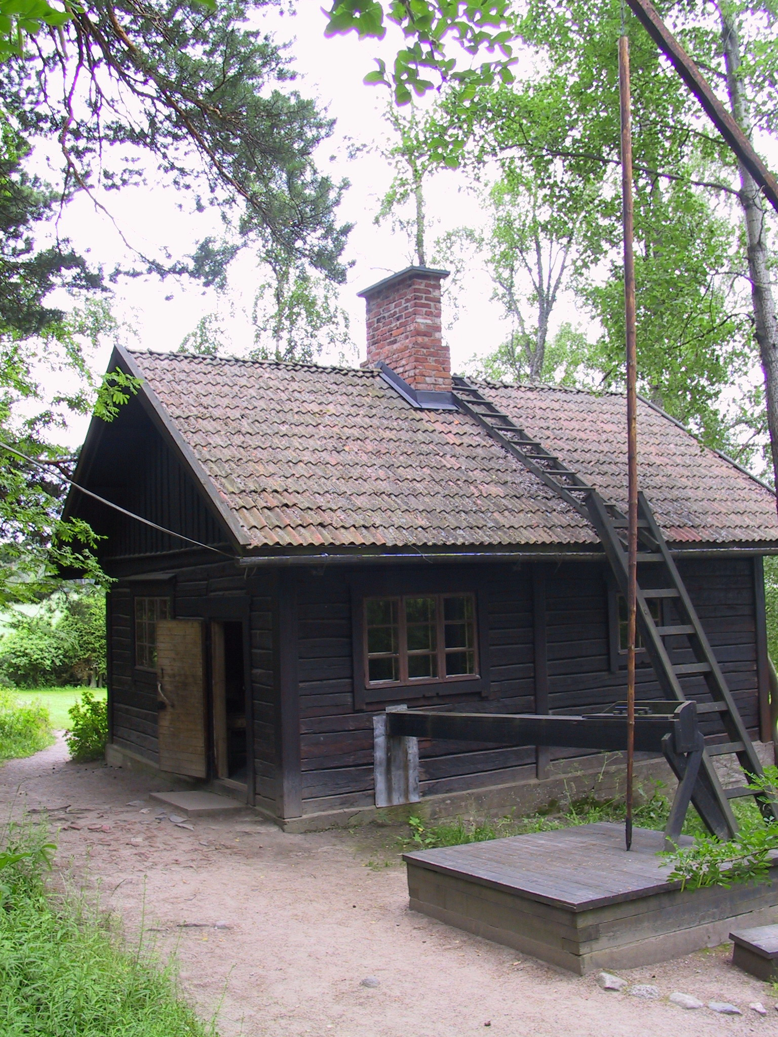 The sauna of Ainola, the home of Jean Sibelius in Järvenpää, Finland